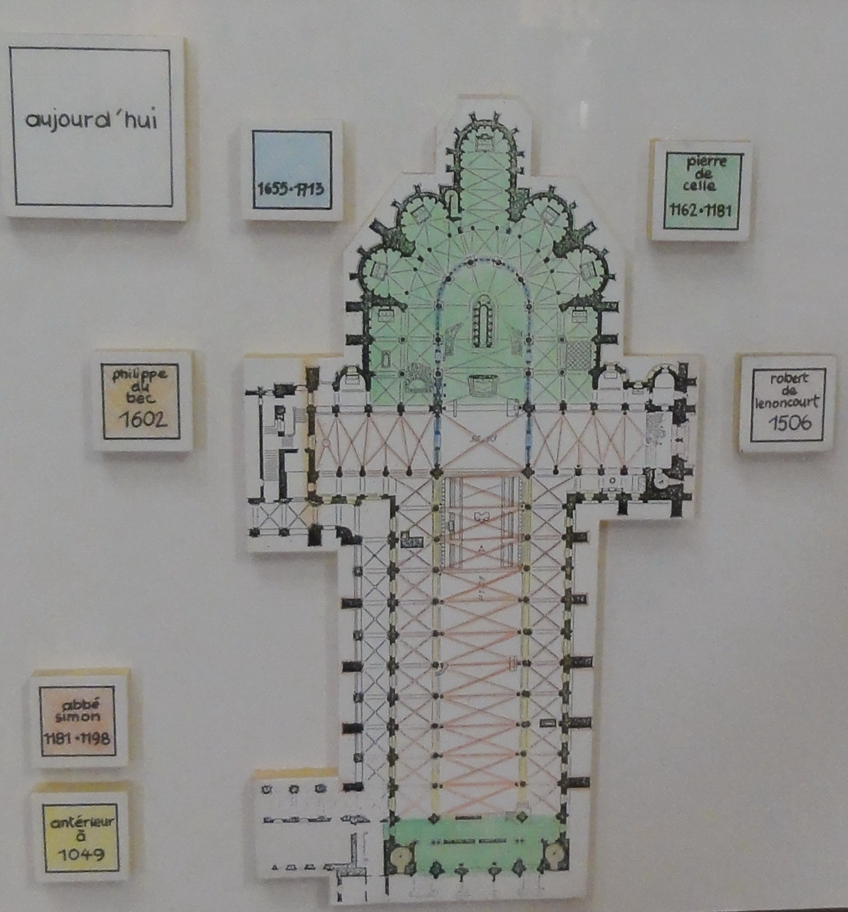 Basilique Saint-Remi de Reims (actual plan)